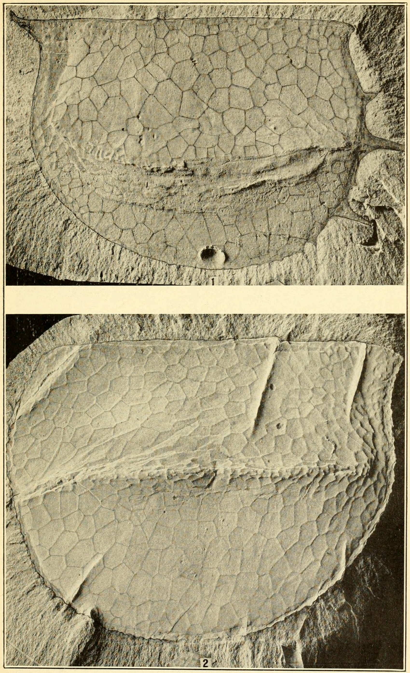 Proceedings of the United States National Museum, Volume 76, Article 9, Plate 1: Original description:' Tuzoia retifera Walcott / For explanation of plate see page 15